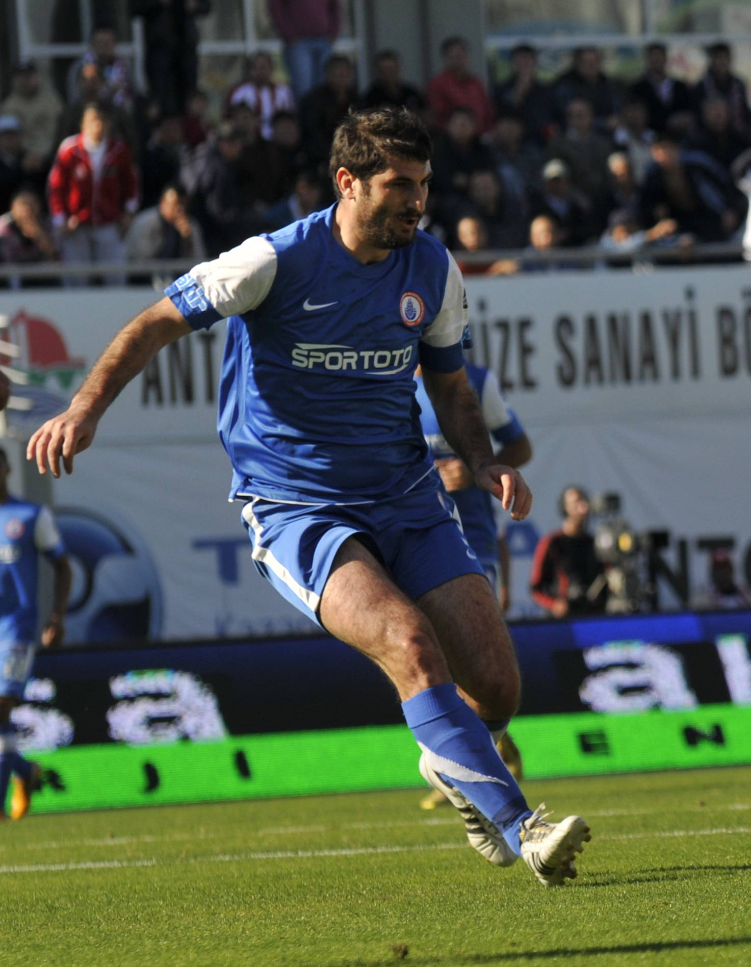 Foto : Koray Geçgel